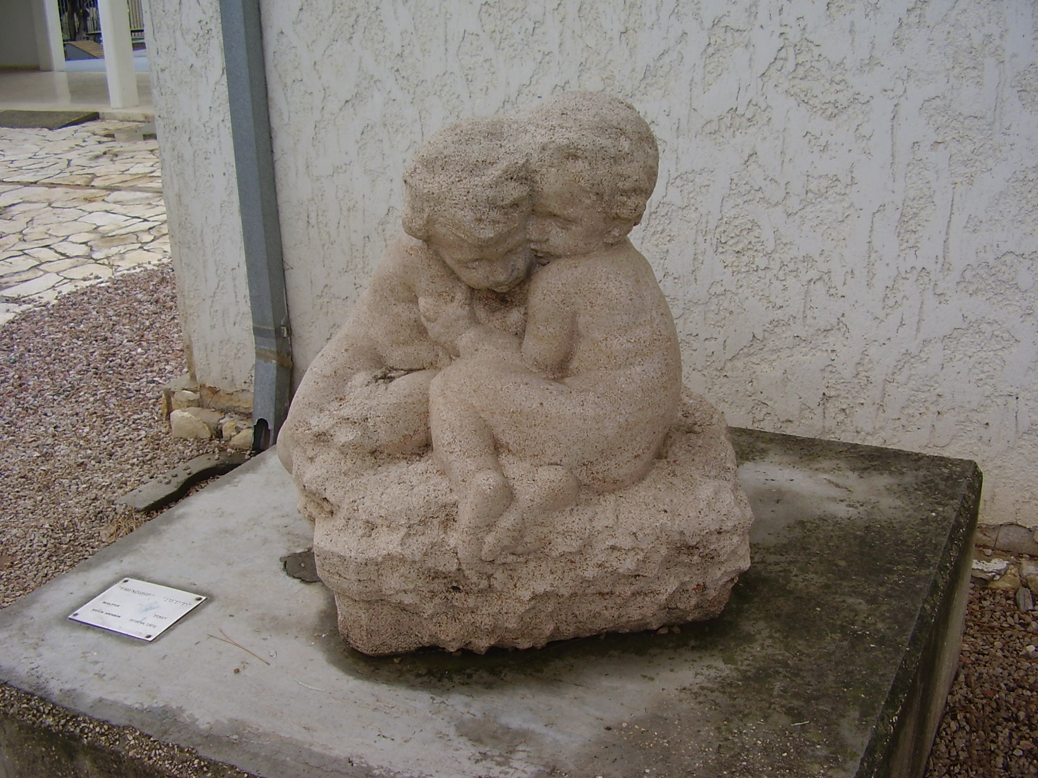 \"friendship\" by nahum aronson (1872-1943) in petakh tikva